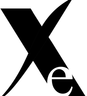 Blackwater Worldwide's new company logo--referred to as Xe.